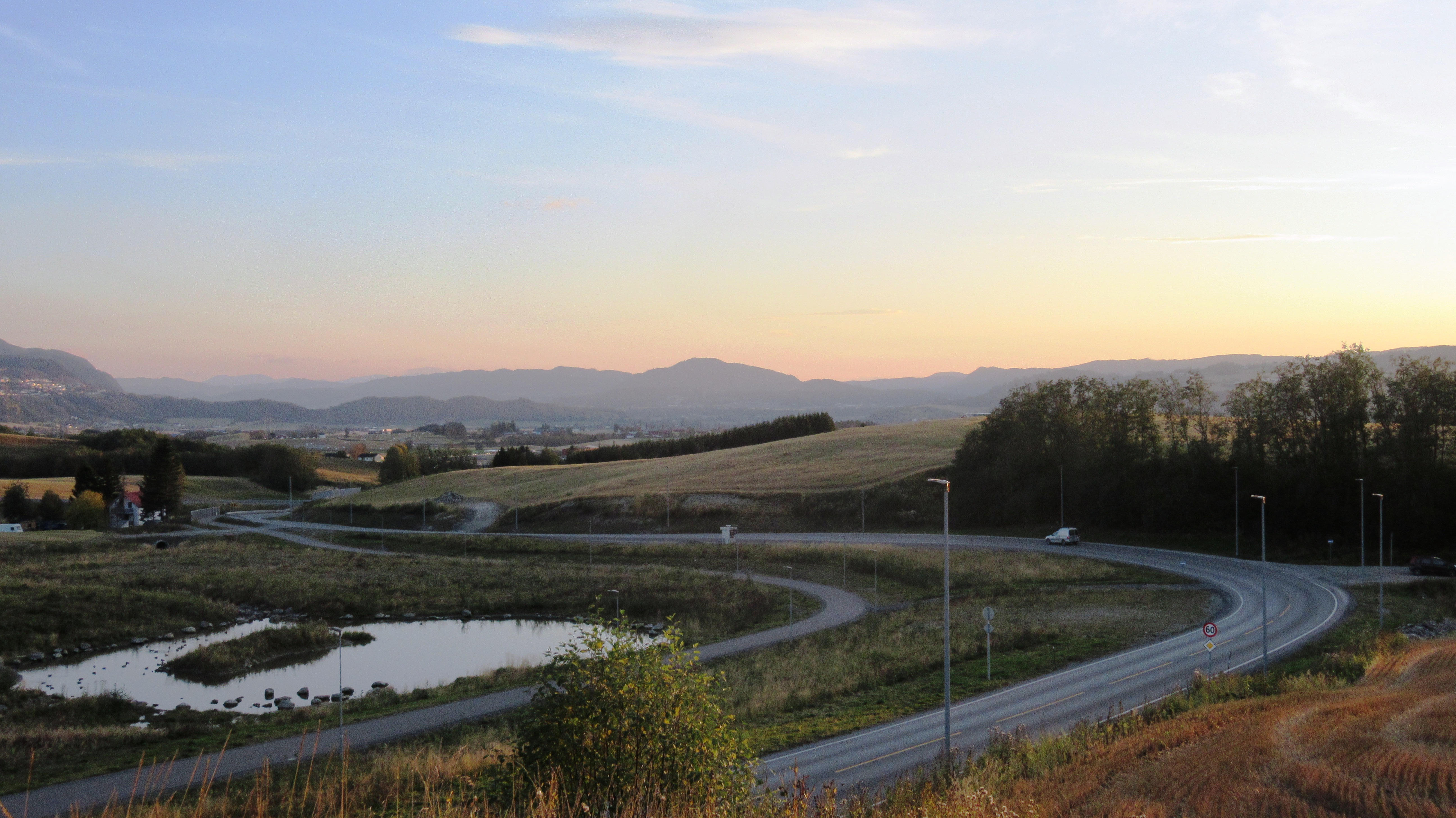 FV900 Bjørndalen (Heimdalsveien) after the upgrade in 2016